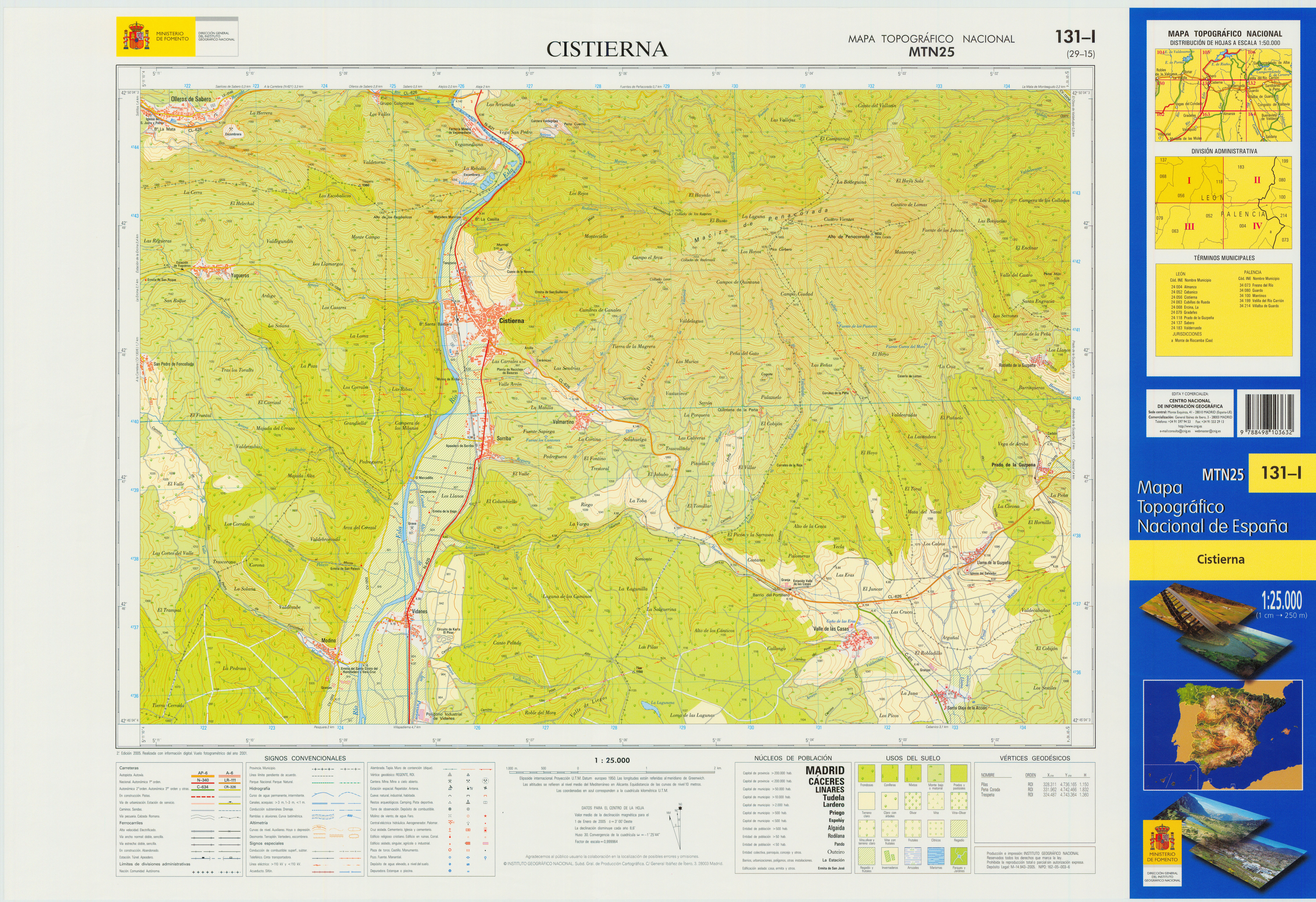 Fragment 0131c1 of the National Topographic Map of Spain in 2005 at a scale of 1:25000 printed and scanned with a resolution of 250 ppi. It shows Cistierna.